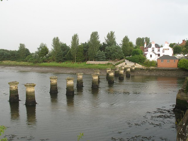 River Eden and St Andrews Railway viaduct The remains of the railway viaduct at Guardbridge. The line closed in 1969 and there is a long running campaign to reopen it.